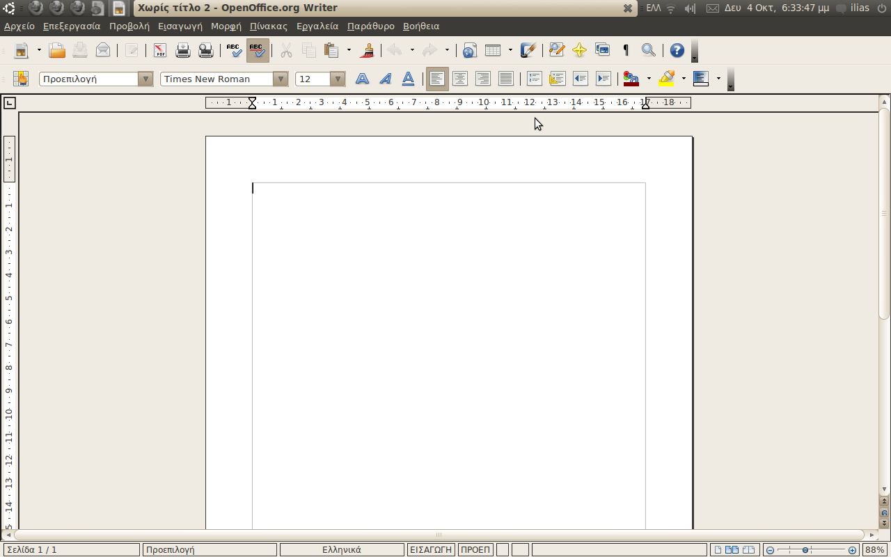 Writer 3.2.0 on Ubuntu netbook remix lucid in Greek